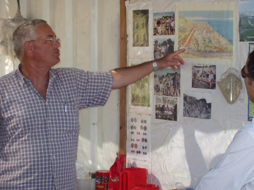 Archeologist Prof. Yizhar Hirschfeld Lectures in Old Tiberias excavation